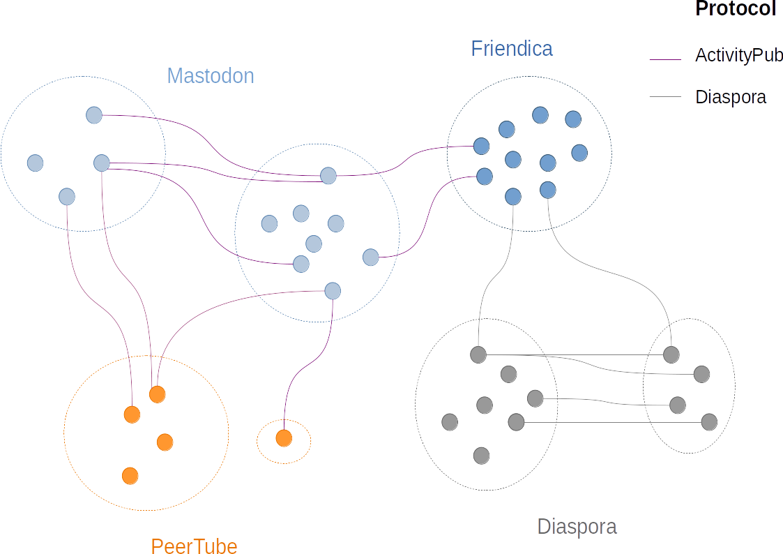 Dashed lines denote servers (called "instances" for Mastodon and "pods" for Diaspora) on which users (circles) have an account. Solid lines denote communication happening between users on different servers, with different colours for different protocols. The Diaspora software only supports only the Diaspora protocol; Mastodon and PeerTube mainly use ActivityPub. Friendica can use both ActivityPub and Diaspora protocols, which means Friendica users can communicate with all other software represented here.